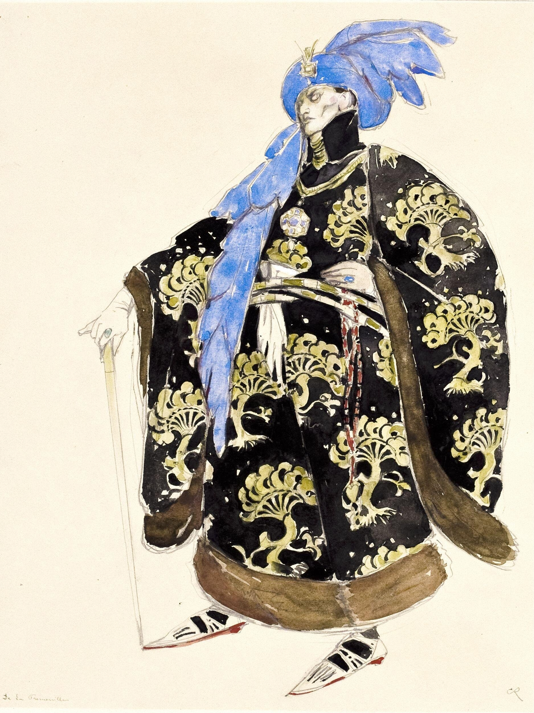 Costume design for Tremouille in G. B. Shaw`s play Saint Joan - Watercolour